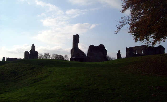 Sherborne Castle in Dorset. Taken by Joe D November 4 en:2004.